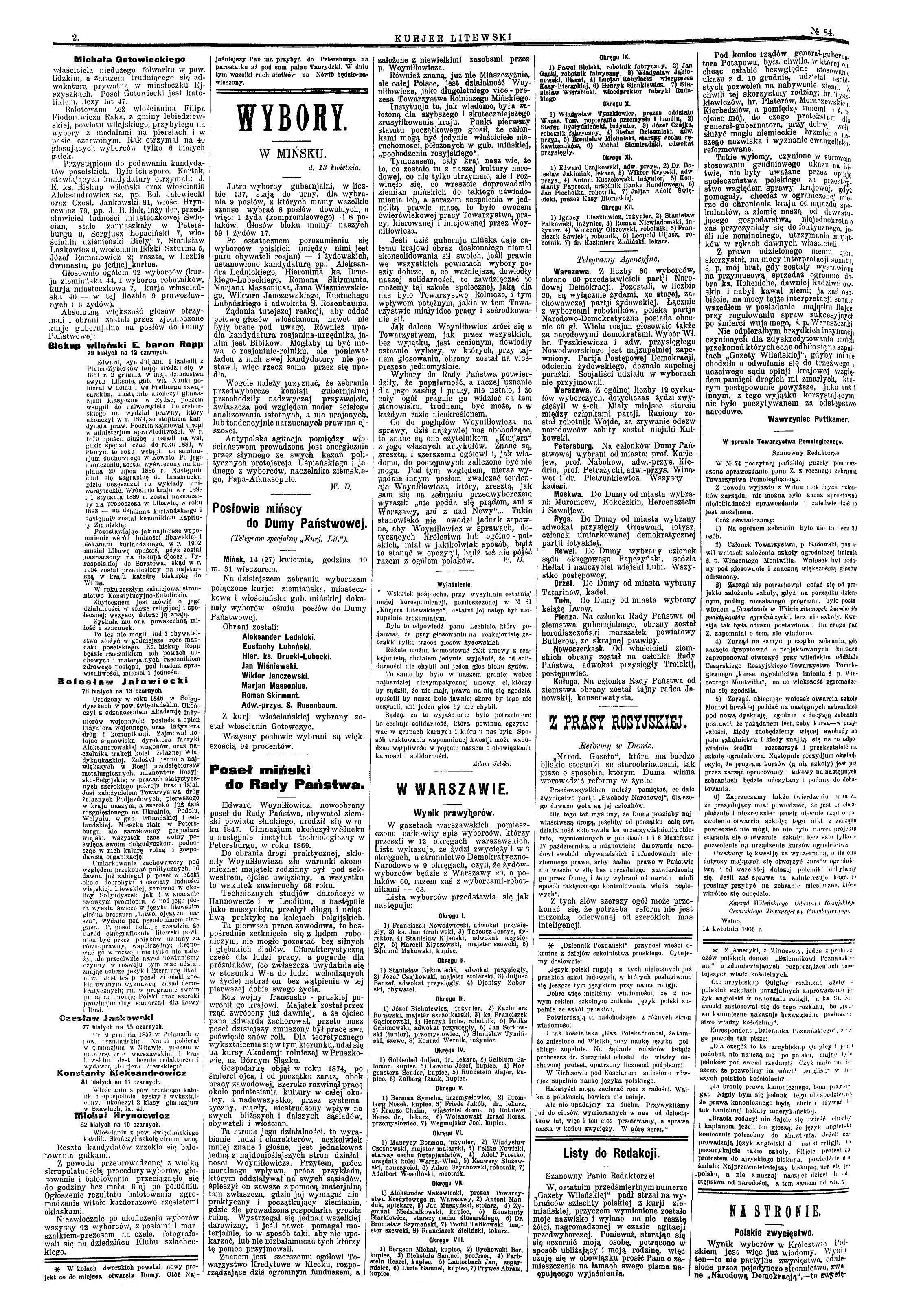 second page of newspaper "Kuryer Litewski" (#84, 1906 AD), Russian empire. Article about Edward Woynillowicz (1847-1928)